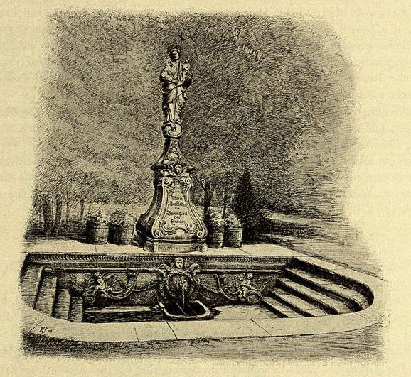 Fountain near the church "Maria in den Ketten" in Zell am Harmersbach, Baden-Württemberg, as in 1908